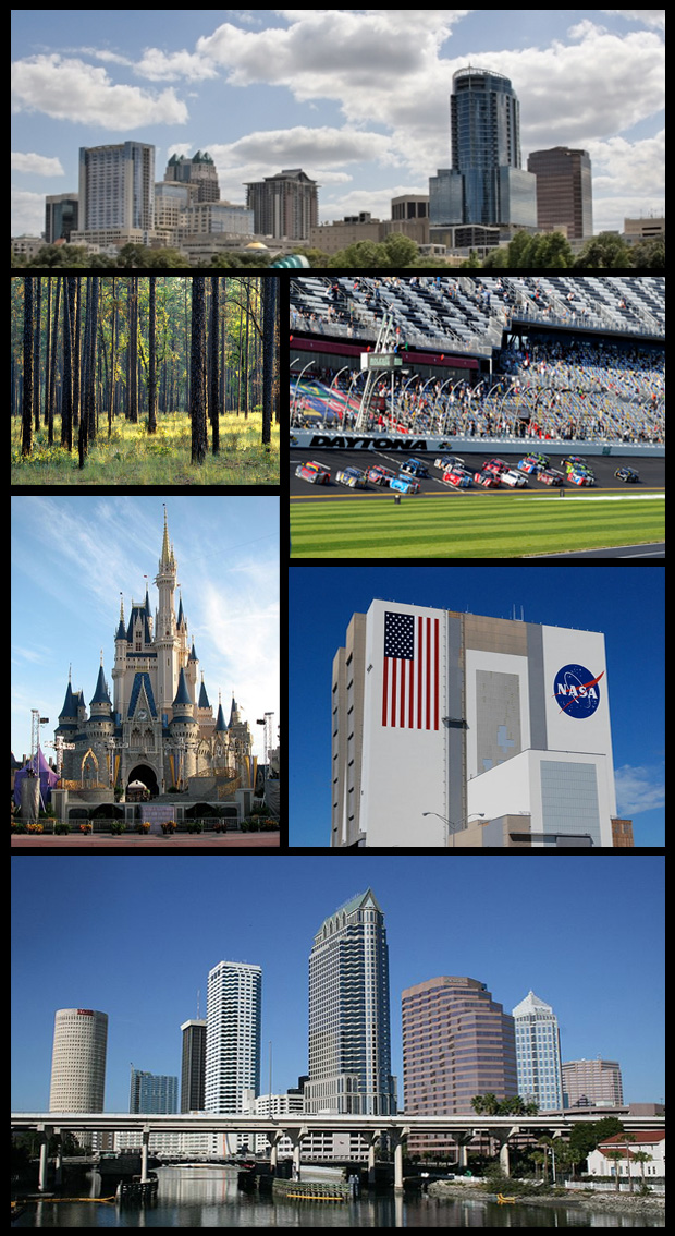 Montage of Central Florida images on WikiMedia Commons